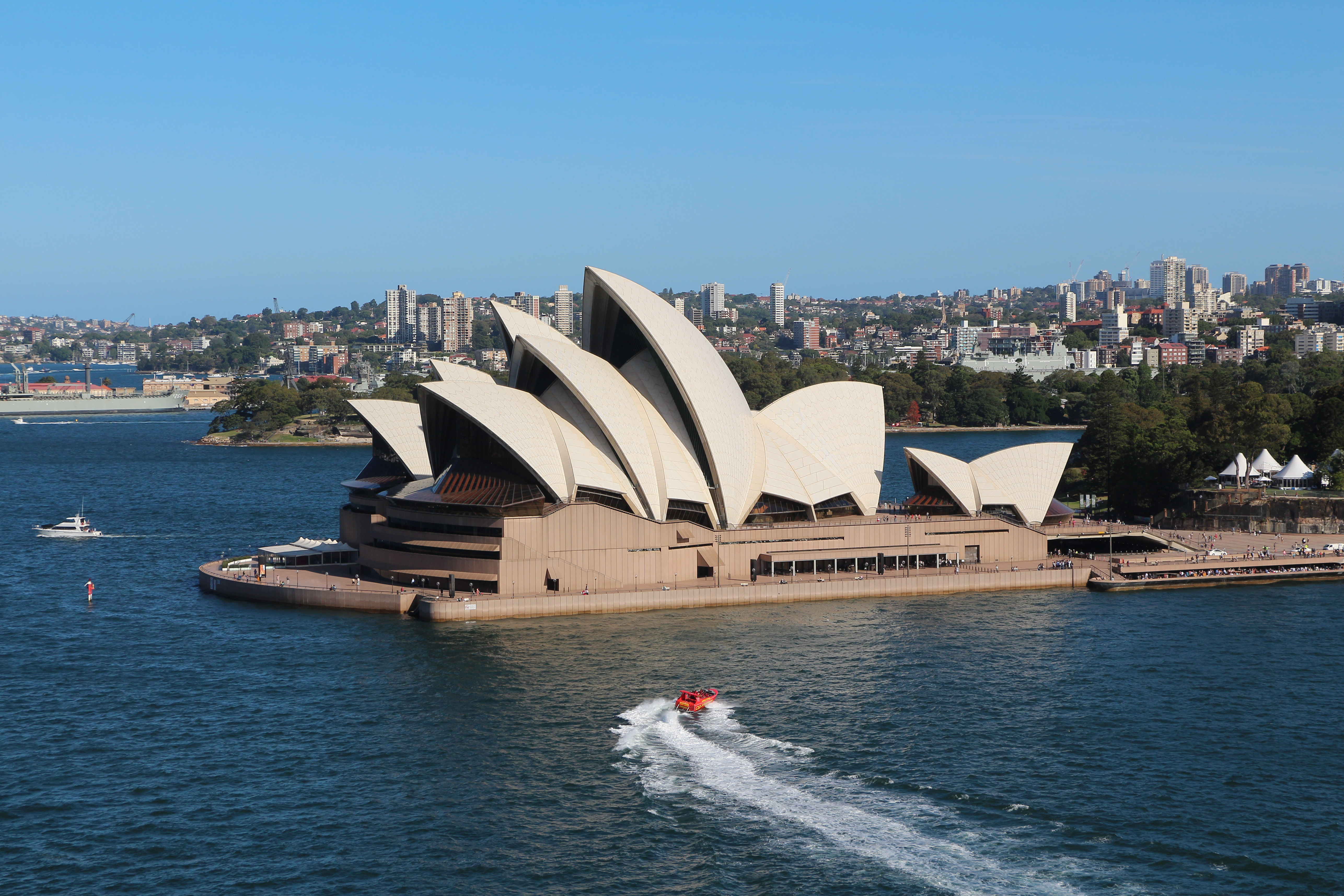 Sydney Opera House seen from Harbour Bridge, Sydney, Australia